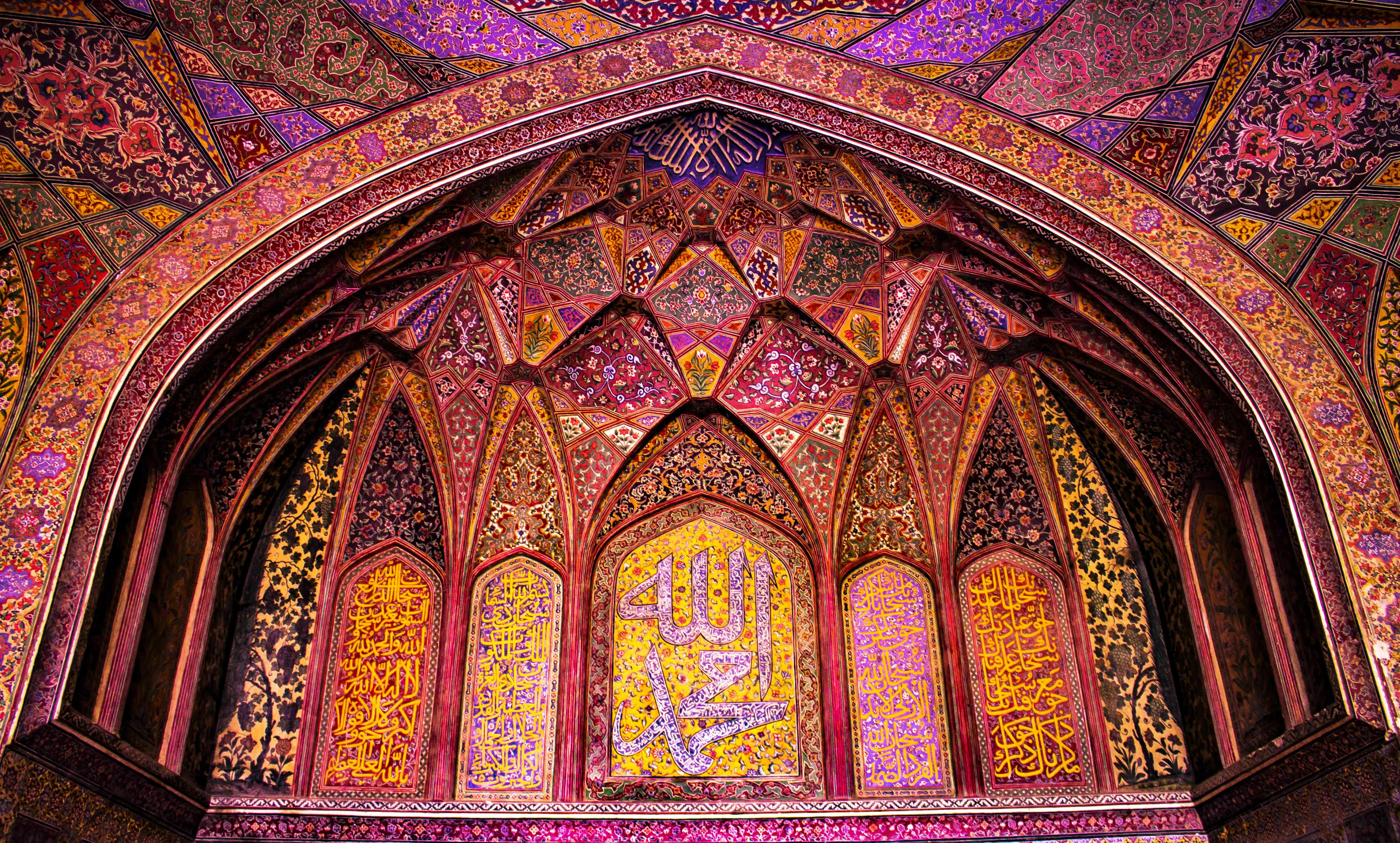 Wazir Khan Mosque This is a photo of a monument in Pakistan identified as the PB-100